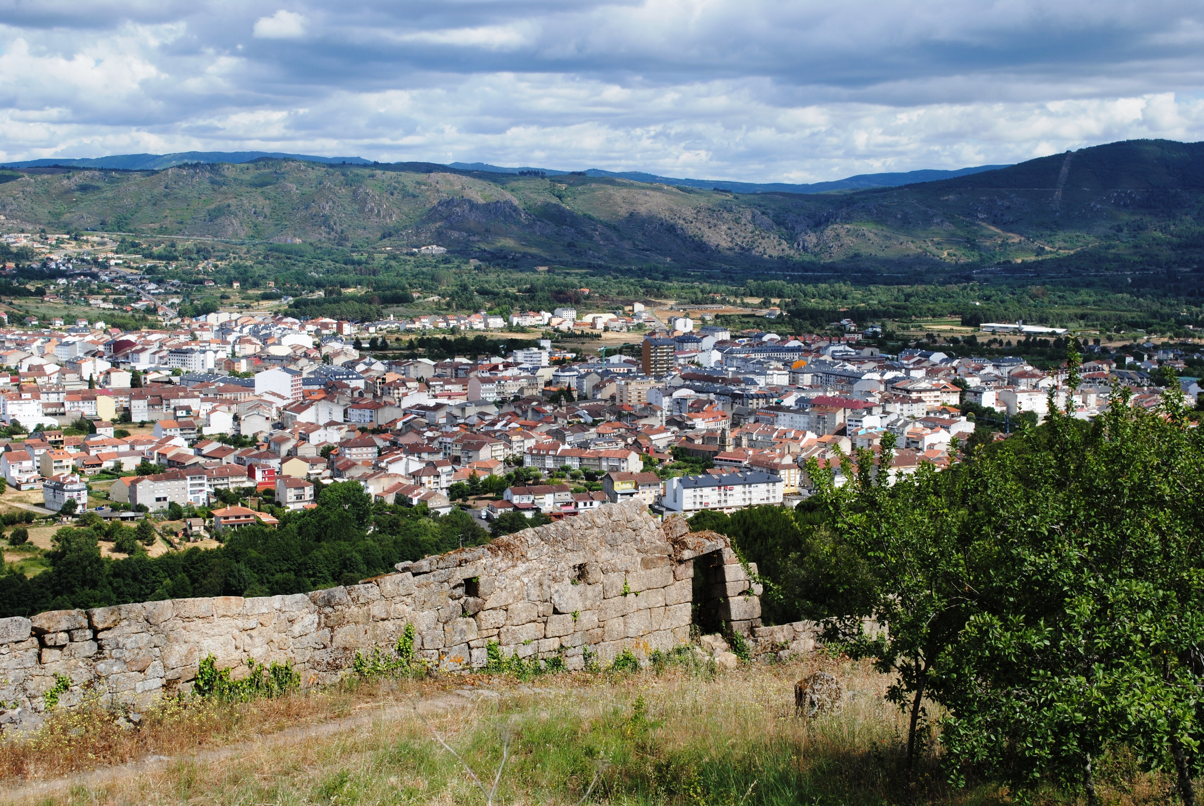 See titlle.